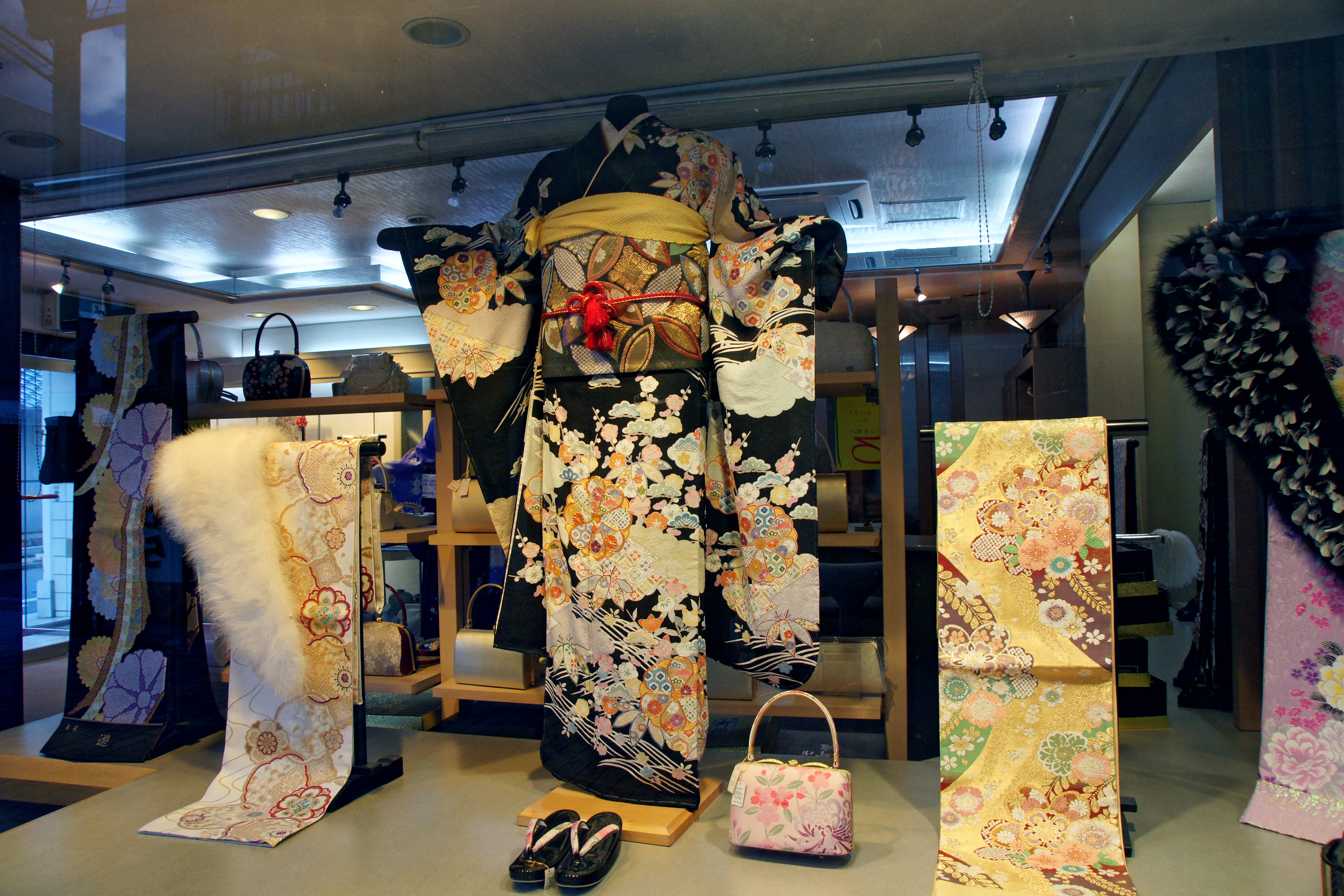 Ono Shopping Street in Ono, Hyogo prefecture, Japan.